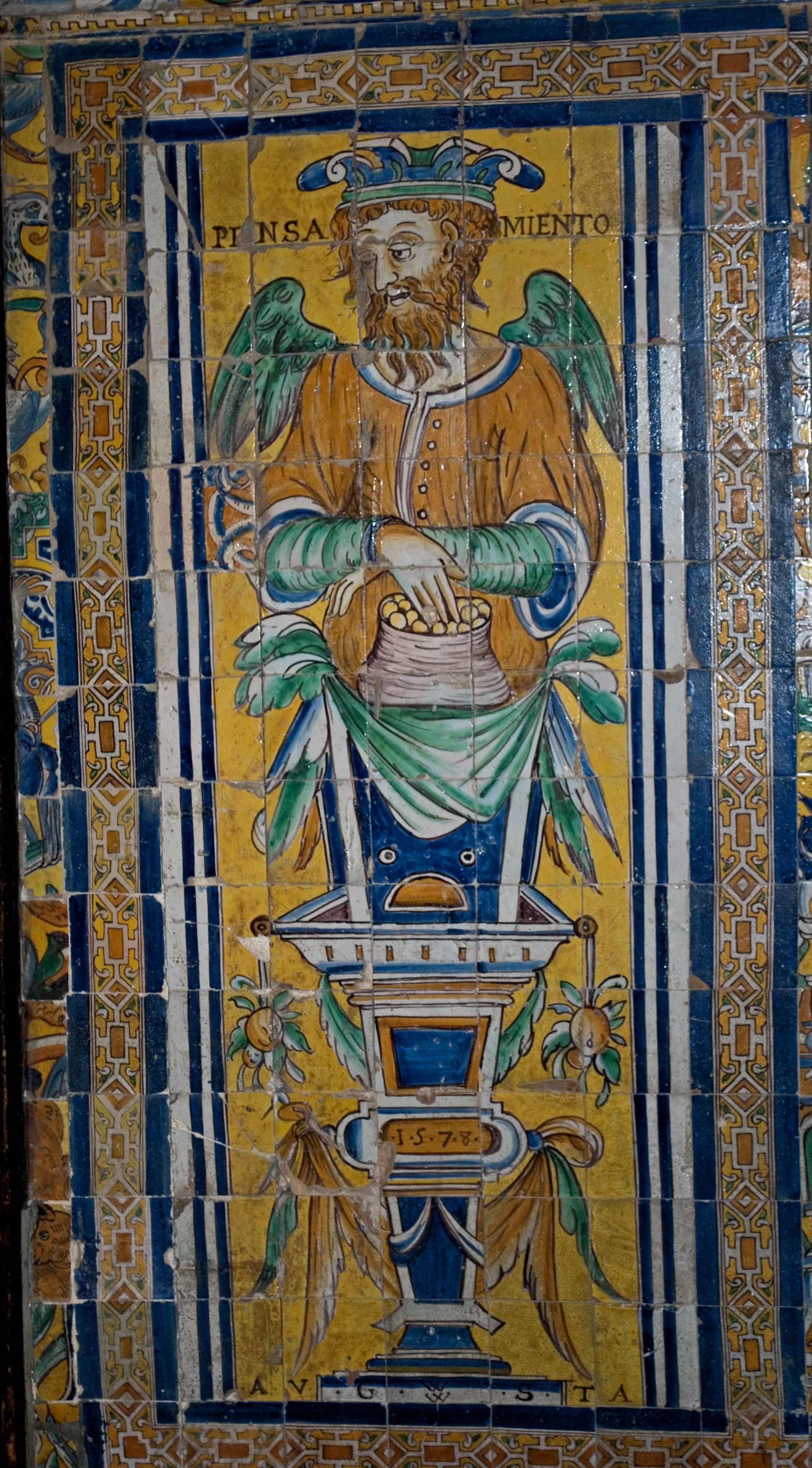 Azulejos of gotic palace, Alcázar of Seville